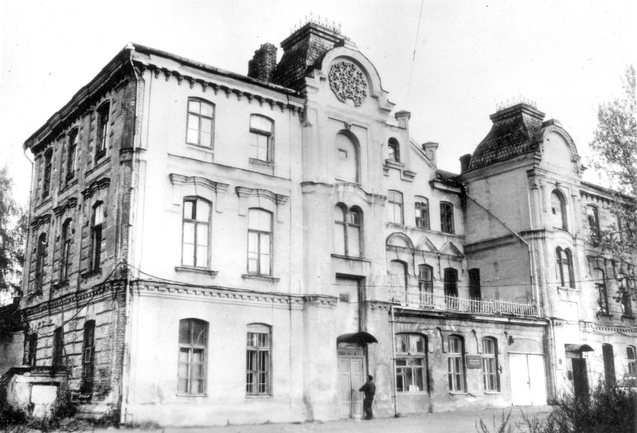 Great Synagogue in Grodno